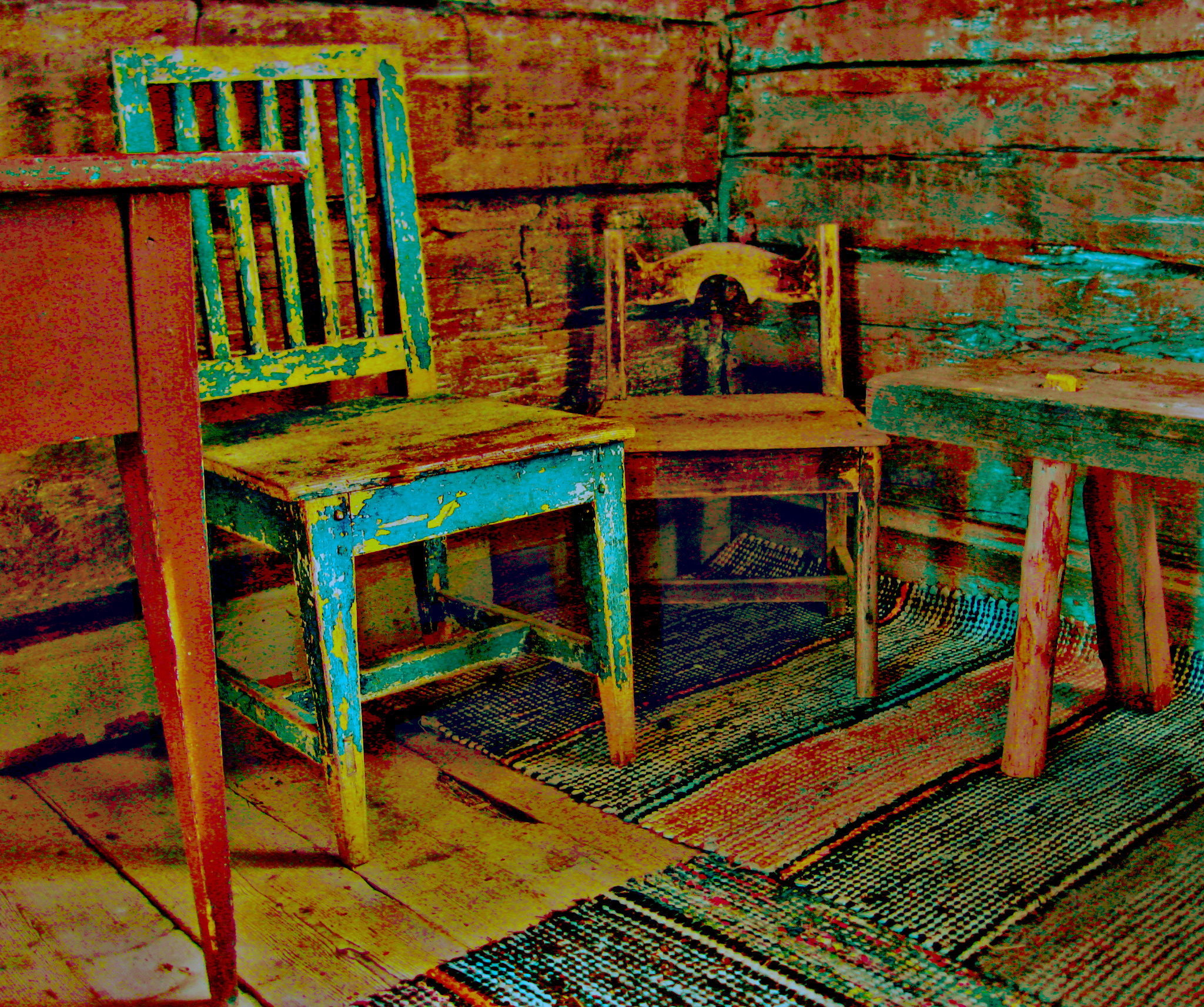 CARULMARE Have a Seat, 2010. Own photo, edited with . The photo was taken in 2009, at the local arts-and-crafts museum (Kilens Hembygdsgård) in Sideby, Kristinestad, Finland. Kilens Hembygdsgård